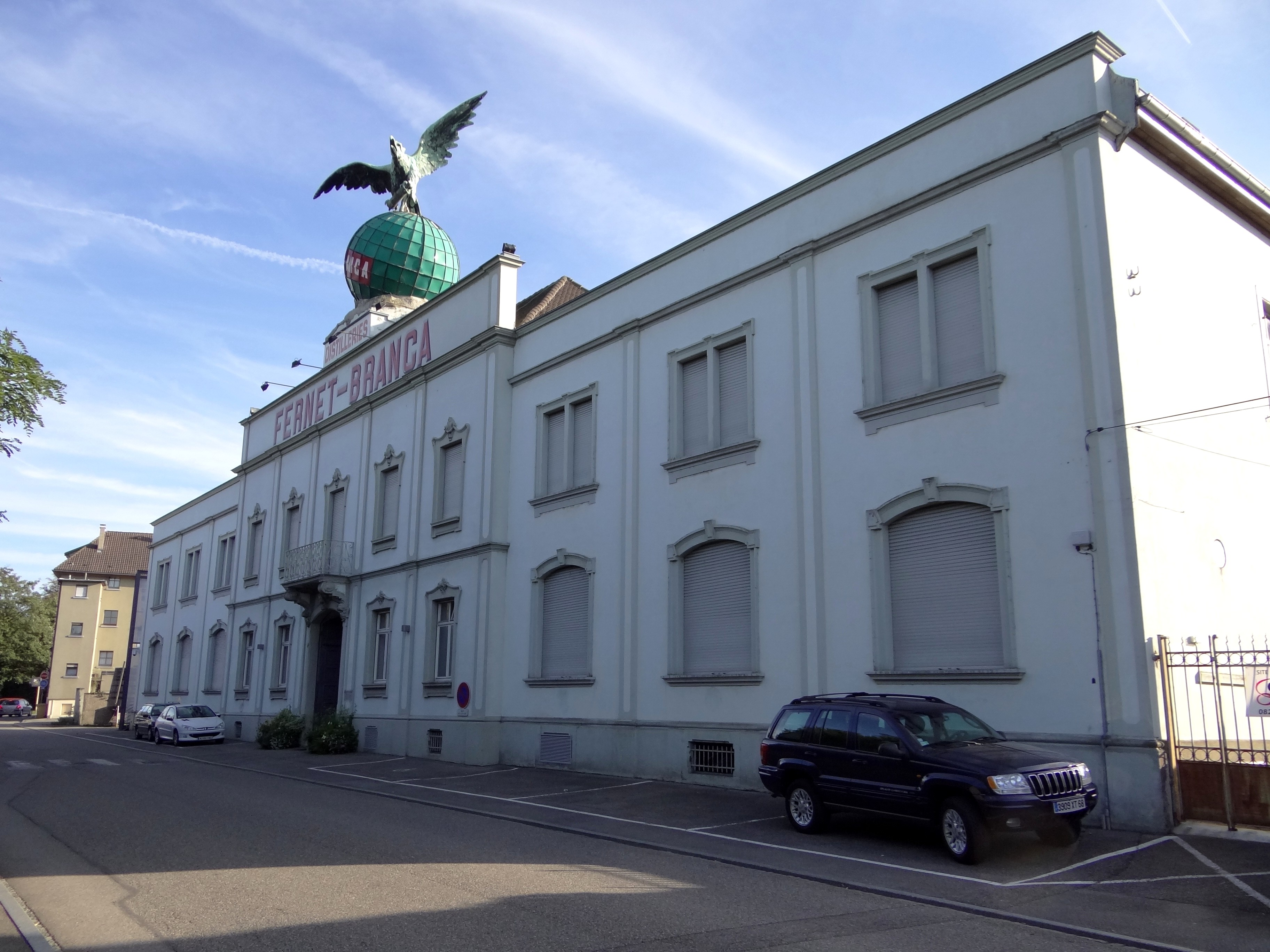 It is indexed in the Base Mérimée, a database of architectural heritage maintained by the French Ministry of Culture, under the references IA00024608 and PA68000011 .